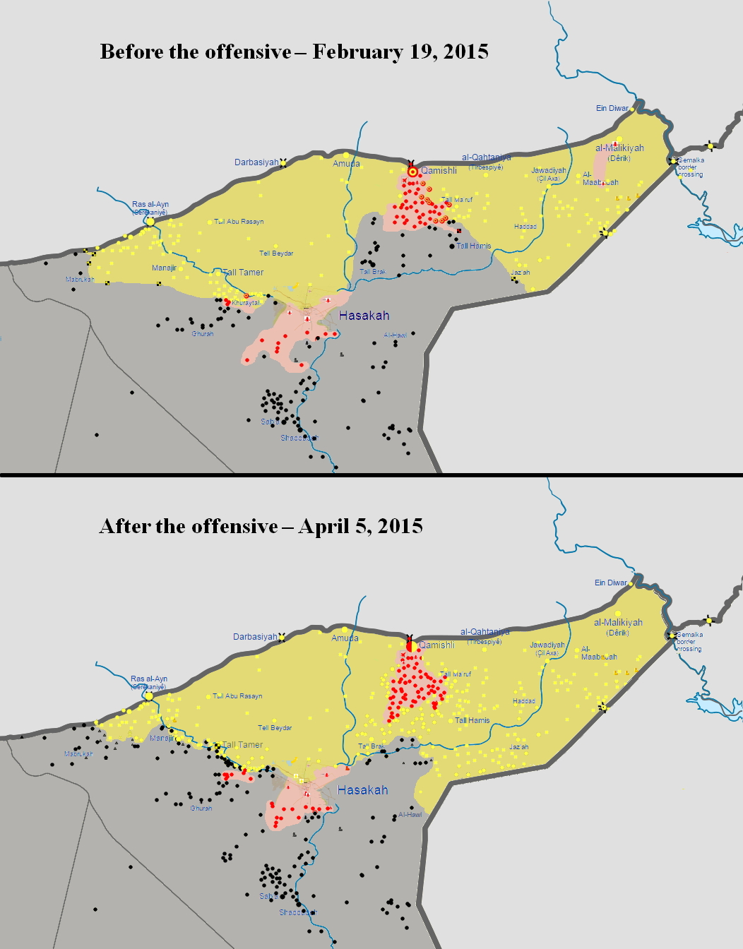 Map of the overall territorial changes during the Al-Hasakah (February–March 2015). Kurdish had retaken most of the area in the Tell Brak-Tell Hamis region, to the north of the Khabur River, while ISIL had captured over 30 villages along the west bank of the Khabur Valley, near Tell Tamer. Also, forces loyal to the Syrian Government had captured 38–42 villages from ISIL to the south of Qamishli, mostly along Highway 7. The map shows the changes in territorial control February 19, before the offensive began, to April 5, after the offensive ended.